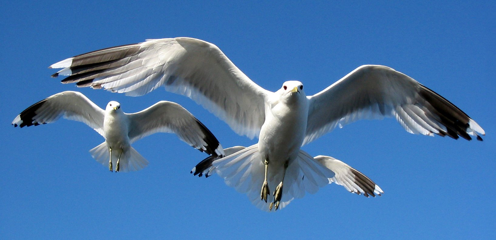 Larus canus - seagull. Picture taken in Kristiansand, Norway, 2004